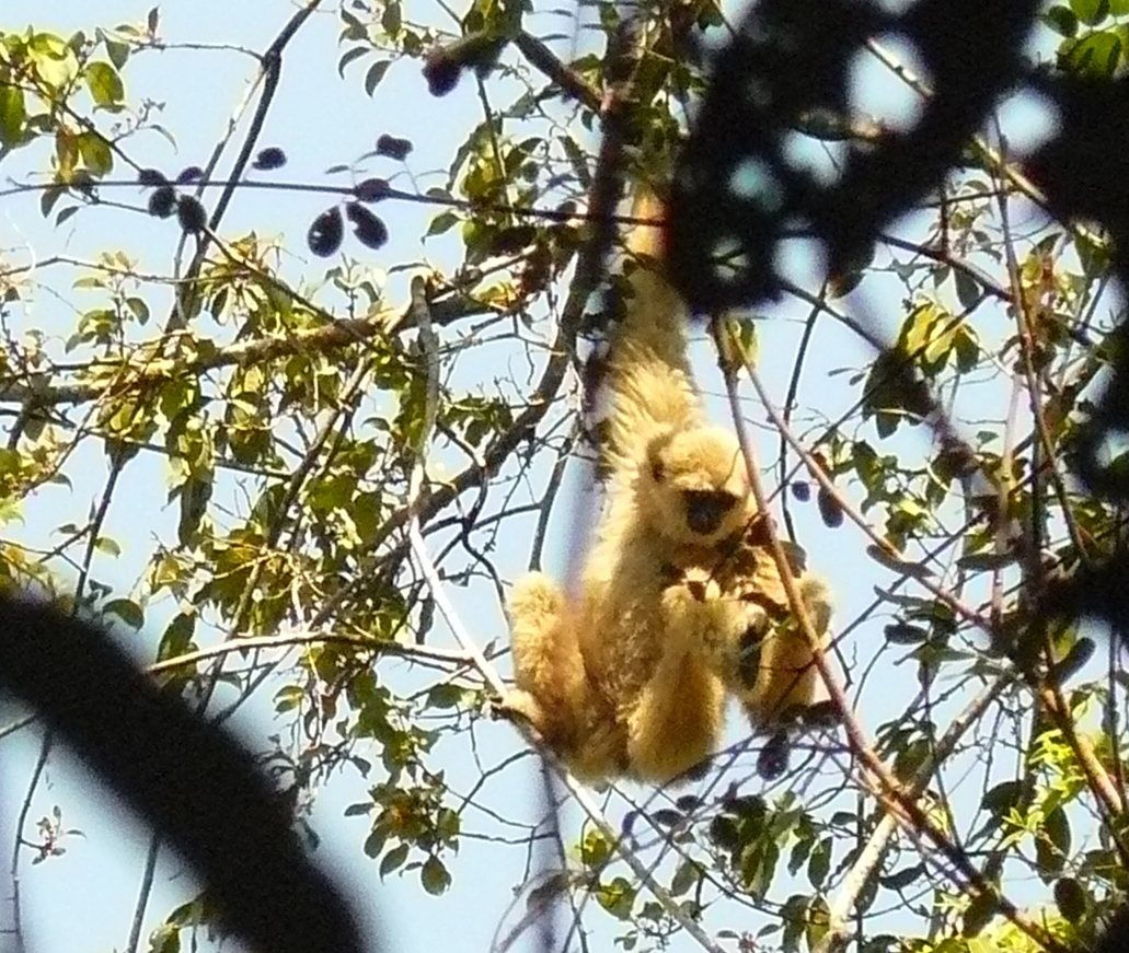 White-handed gibbon (Hylobates lar) at Khao Yai National Park, Thailand